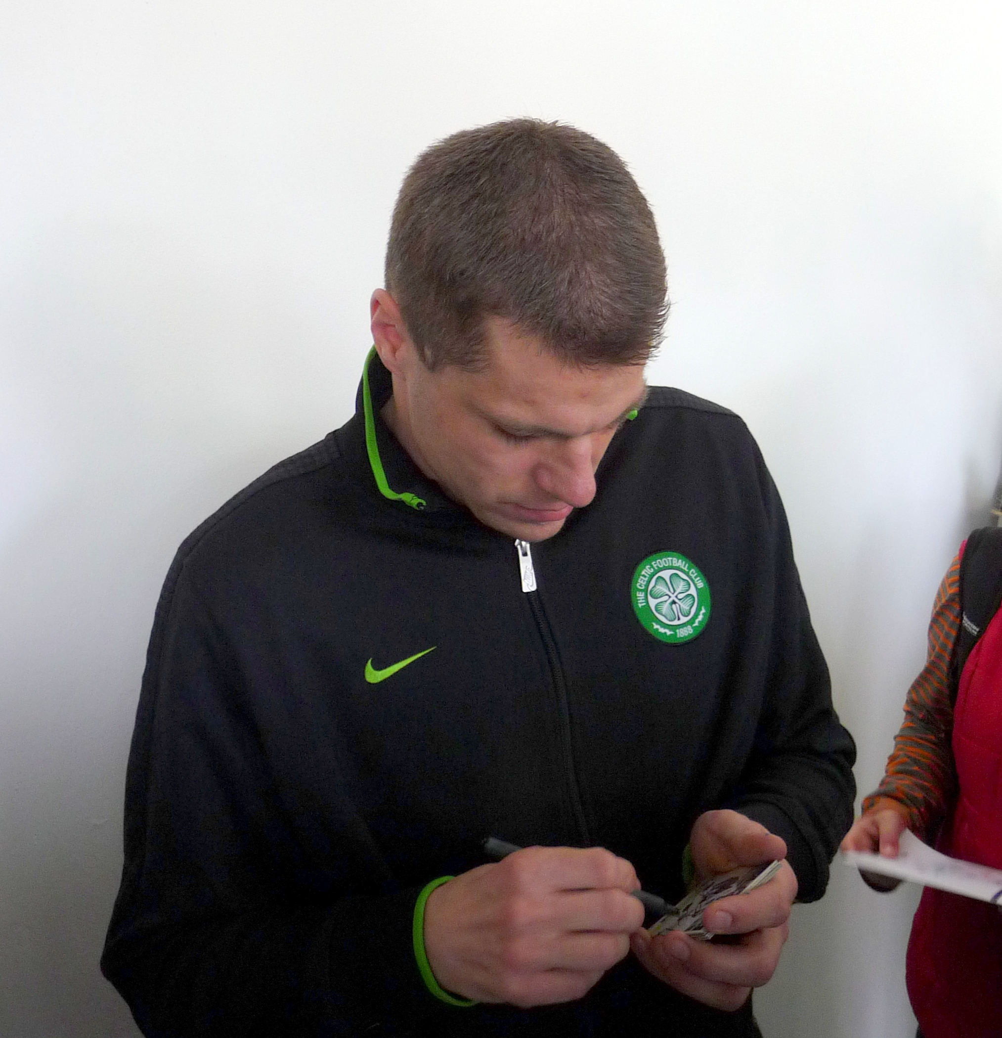 Petr Hubáček giving autographs, Farewell the HC Kometa Brno with season 2010/2011 -10 -5 -3 -2 ◄ ► +2 +3 +5 +10